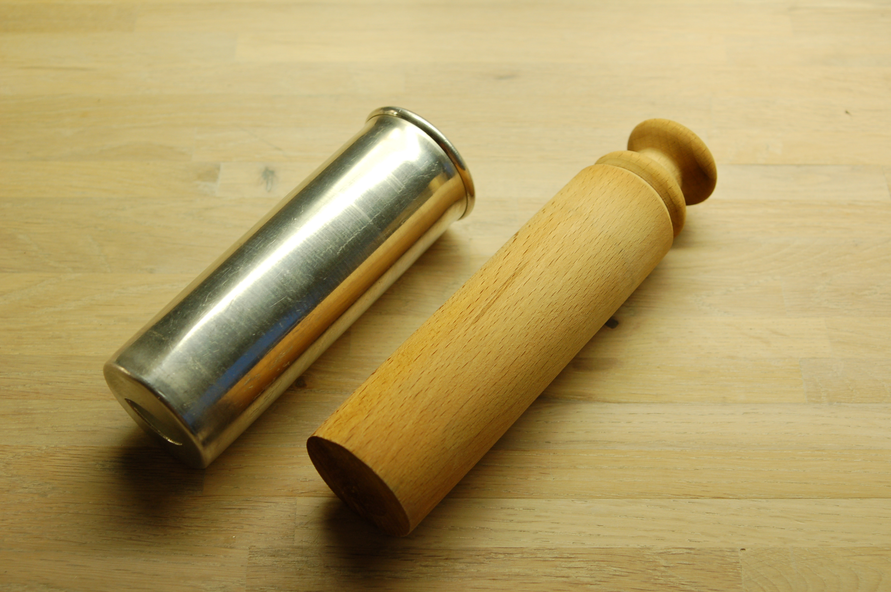 Photo of a kitchen equipment used to make meat balls and balls of flour dough. Used to be common in Denmark.